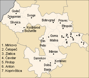 Croatian names on map of Sofia Province (Bulgaria).